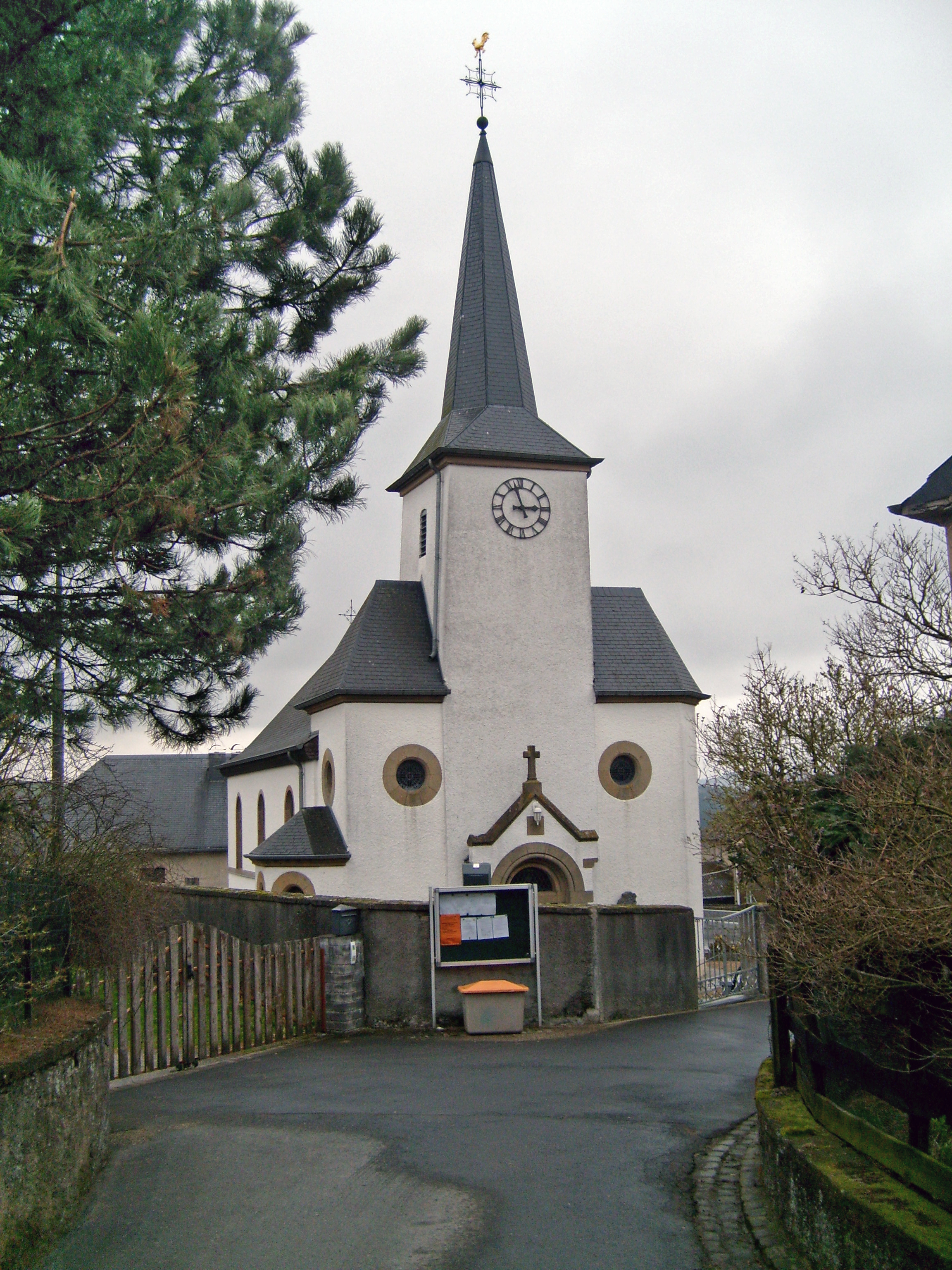 Church in Merkholtz, Oesling, Luxembourg.